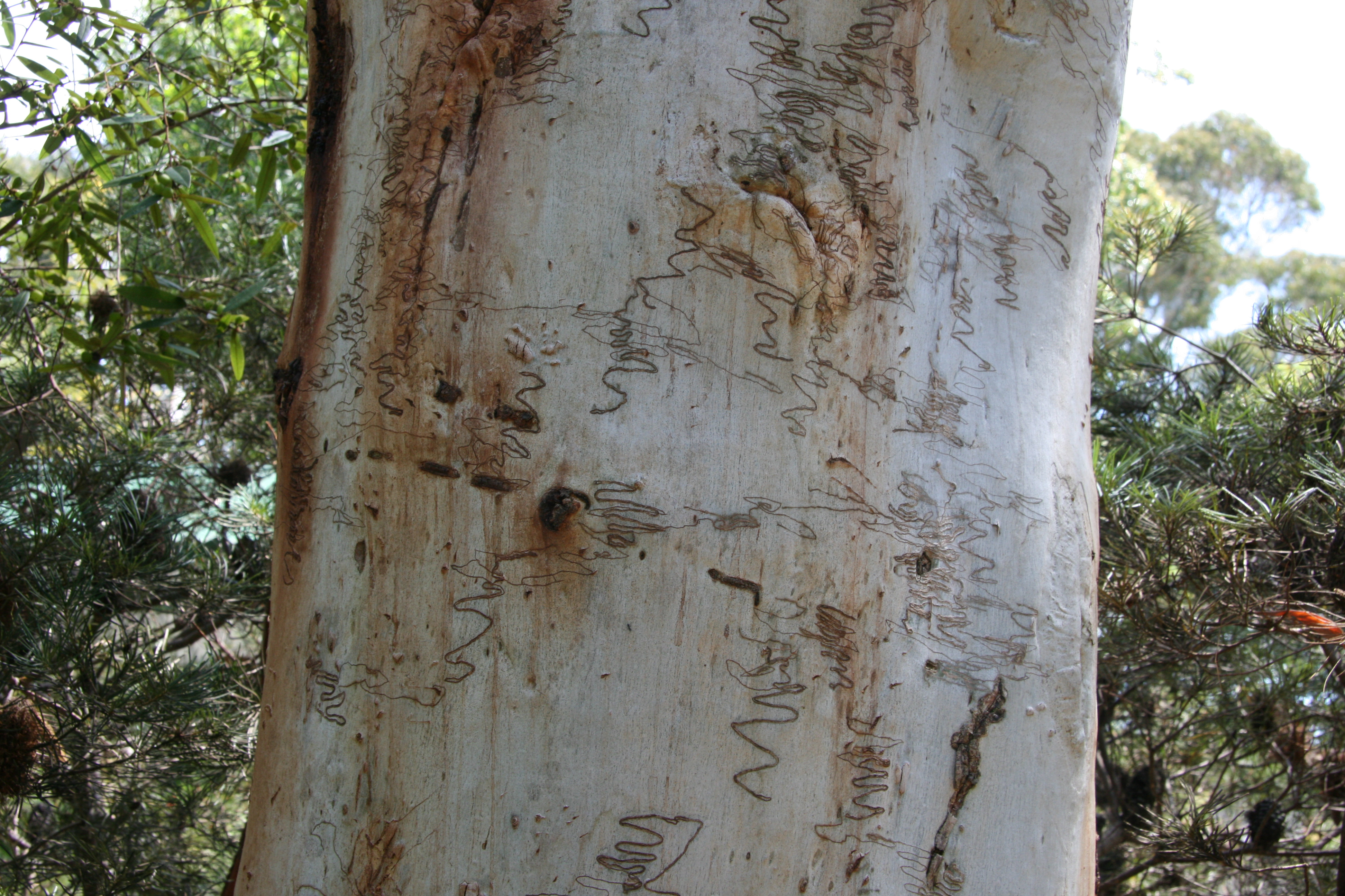 Eucalyptus haemastoma, Sylvan Grove Native Garden, Picnic Point, NSW